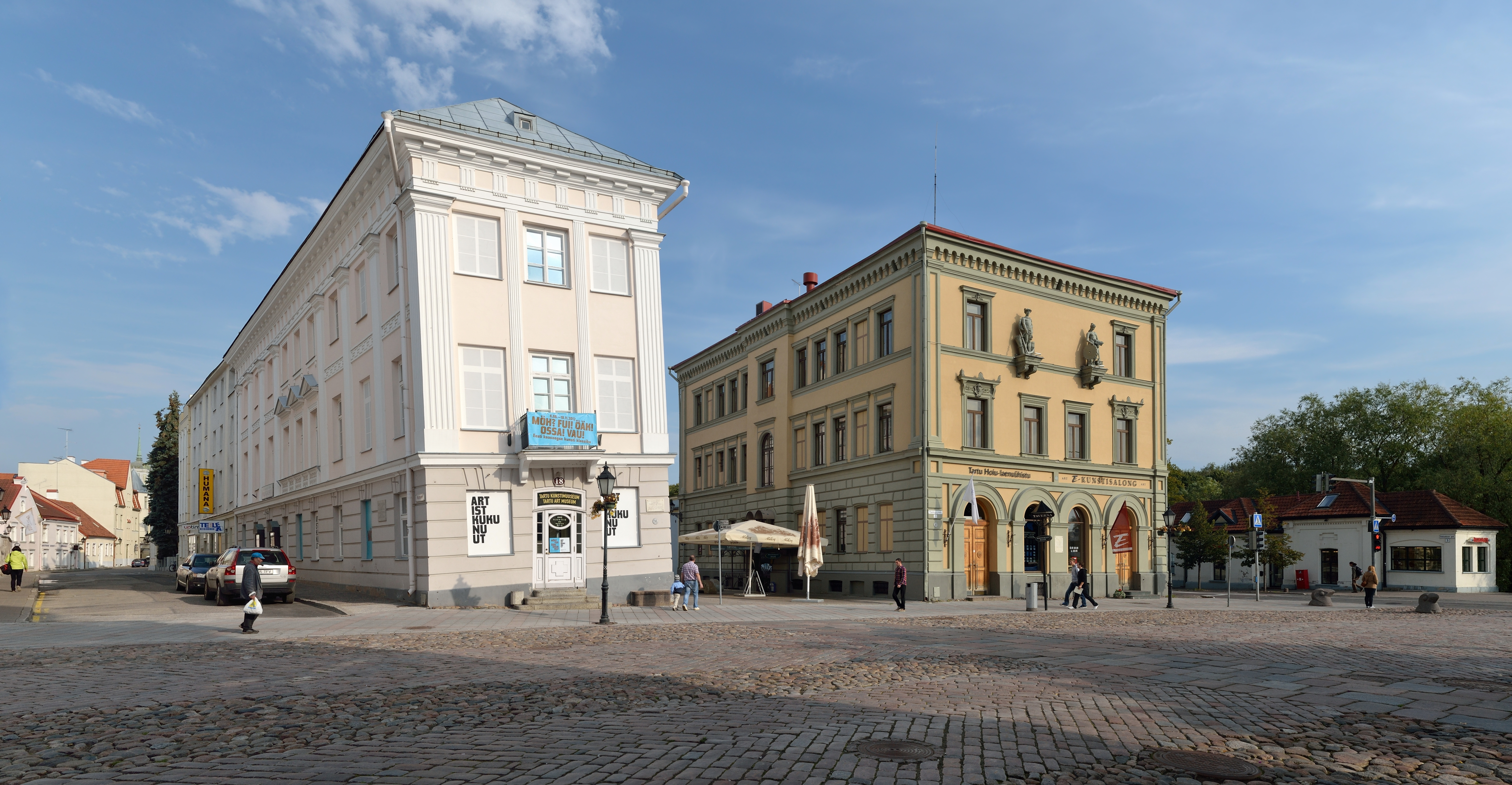 Buildings nr 18 and 20 on Tartu Raekoja plats. Nr 18 is so called the Leaning House of Tartu, built in 1793. One side of the house is foundation supported by the old city wall and the other side by wooden poles. This is the reason why the house is leaning sideways. Nr 20 is bank building, built in 1876-1878